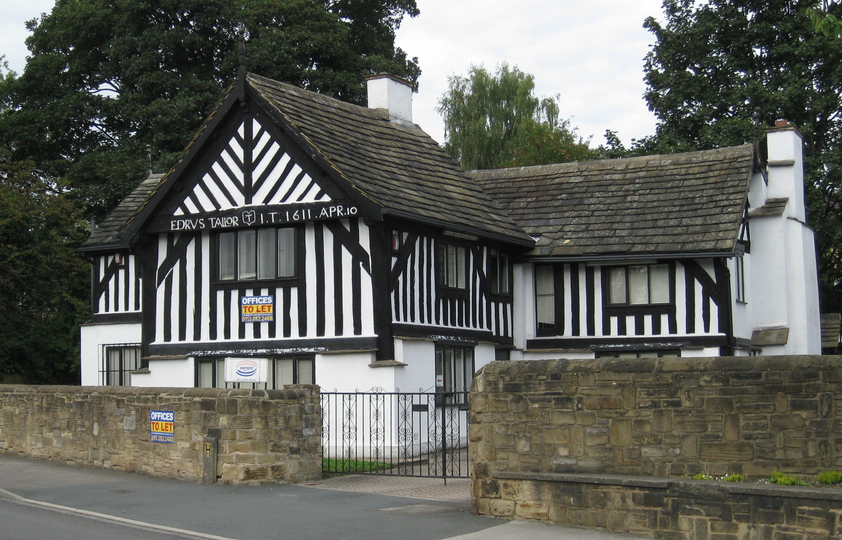 Half-timbered house, 48 Leeds Road, Oulton, Leeds LS26 8JY. Grade II* listed. Bressumer inscribed "EDRUS TAILOR T I.T. 1611. APR.10", Slate roof. Probably 16th century. Also known as "The Nook".